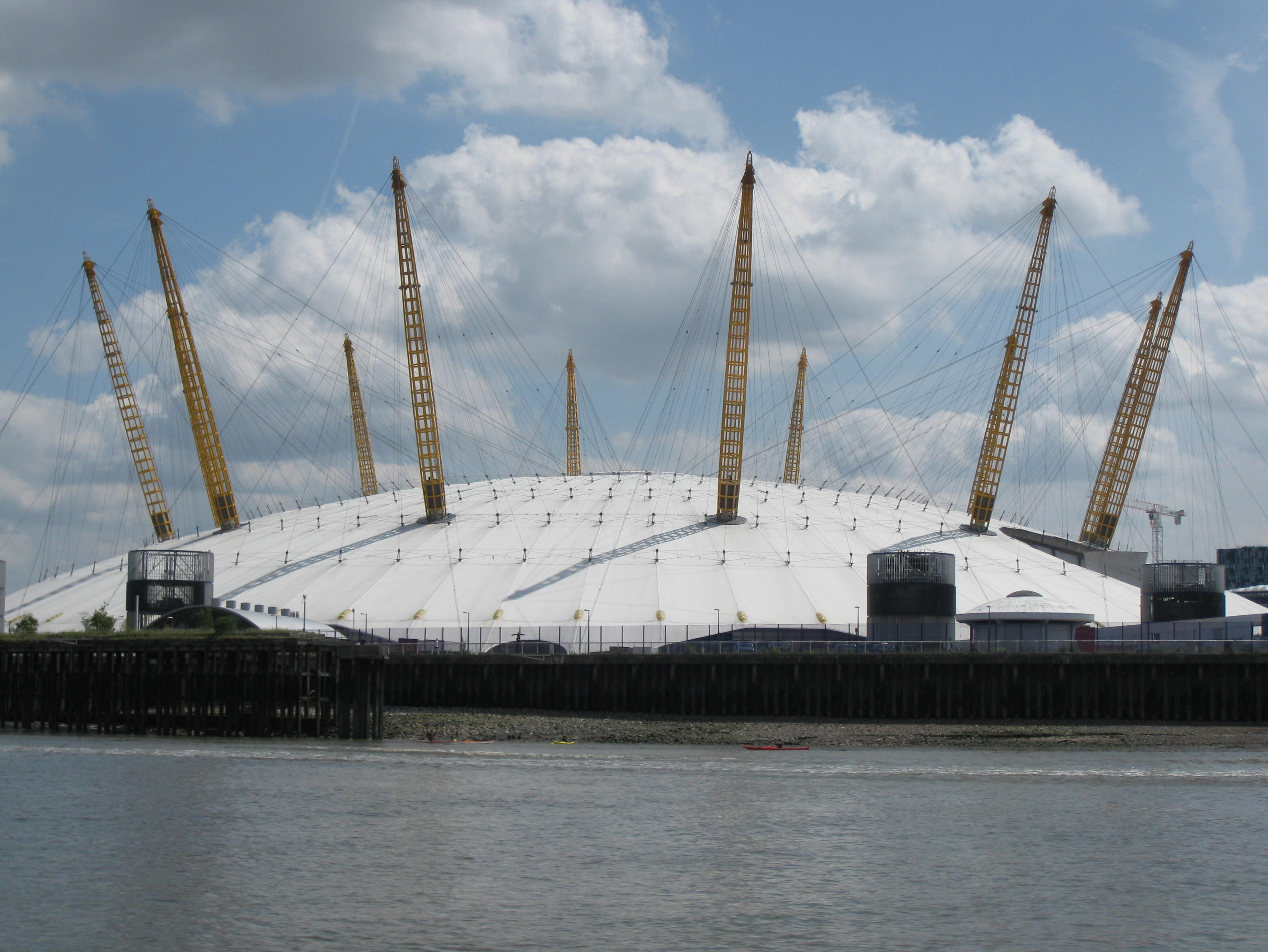 The O2